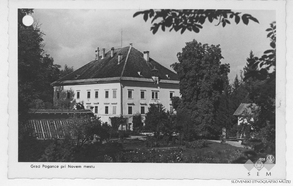 Postcard of Pogance Mansion